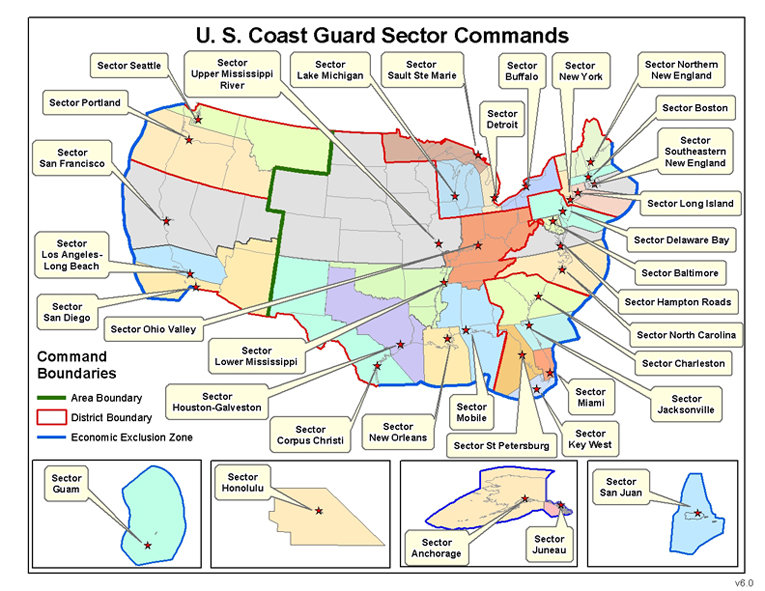 United States Coast Guard Sectors